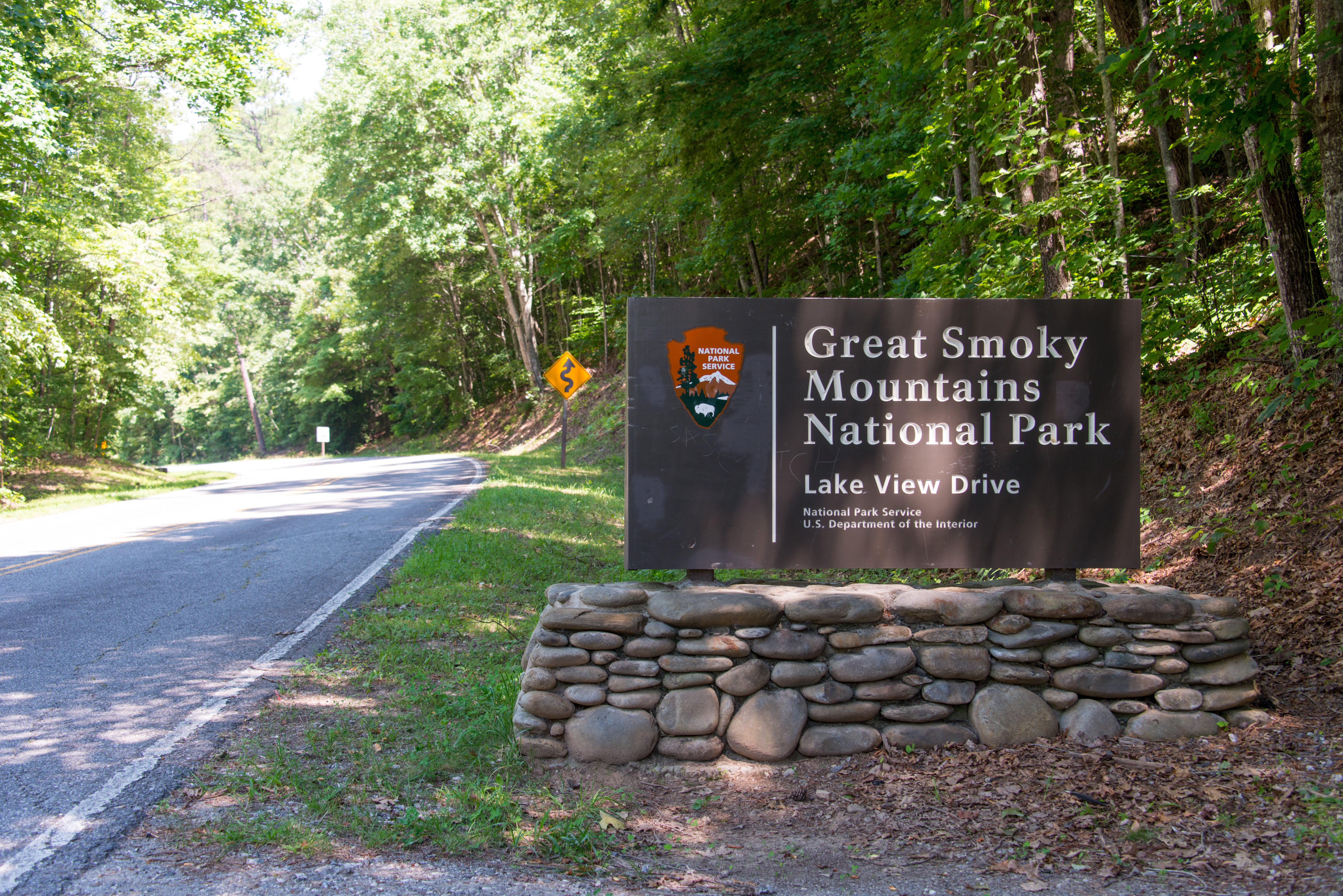 Entrance sign to the Great Smoky Mountains National Park - Lakeview Drive (a.k.a. Road to Nowhere).